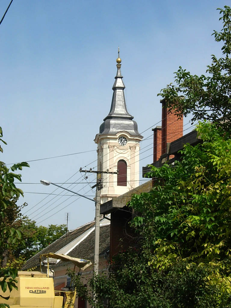 The Orthodox church in Banatsko Novo Selo.